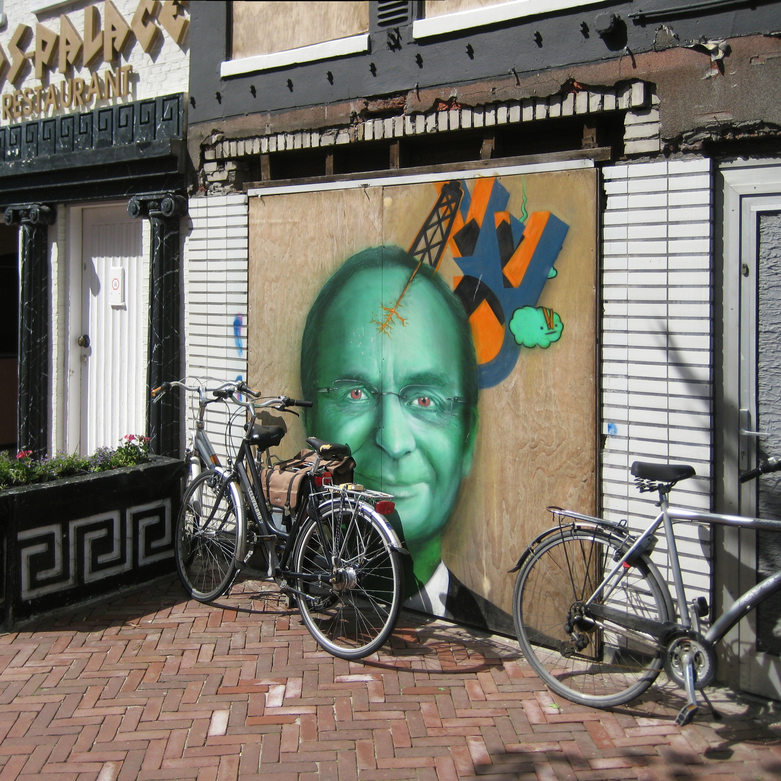 Graffiti in Leeuwarden, the capital of the Dutch province of Fryslân. Depicted are the Dutch politician Henk Kamp and the party logo of the Volkspartij voor Vrijheid en Democratie (VVD).